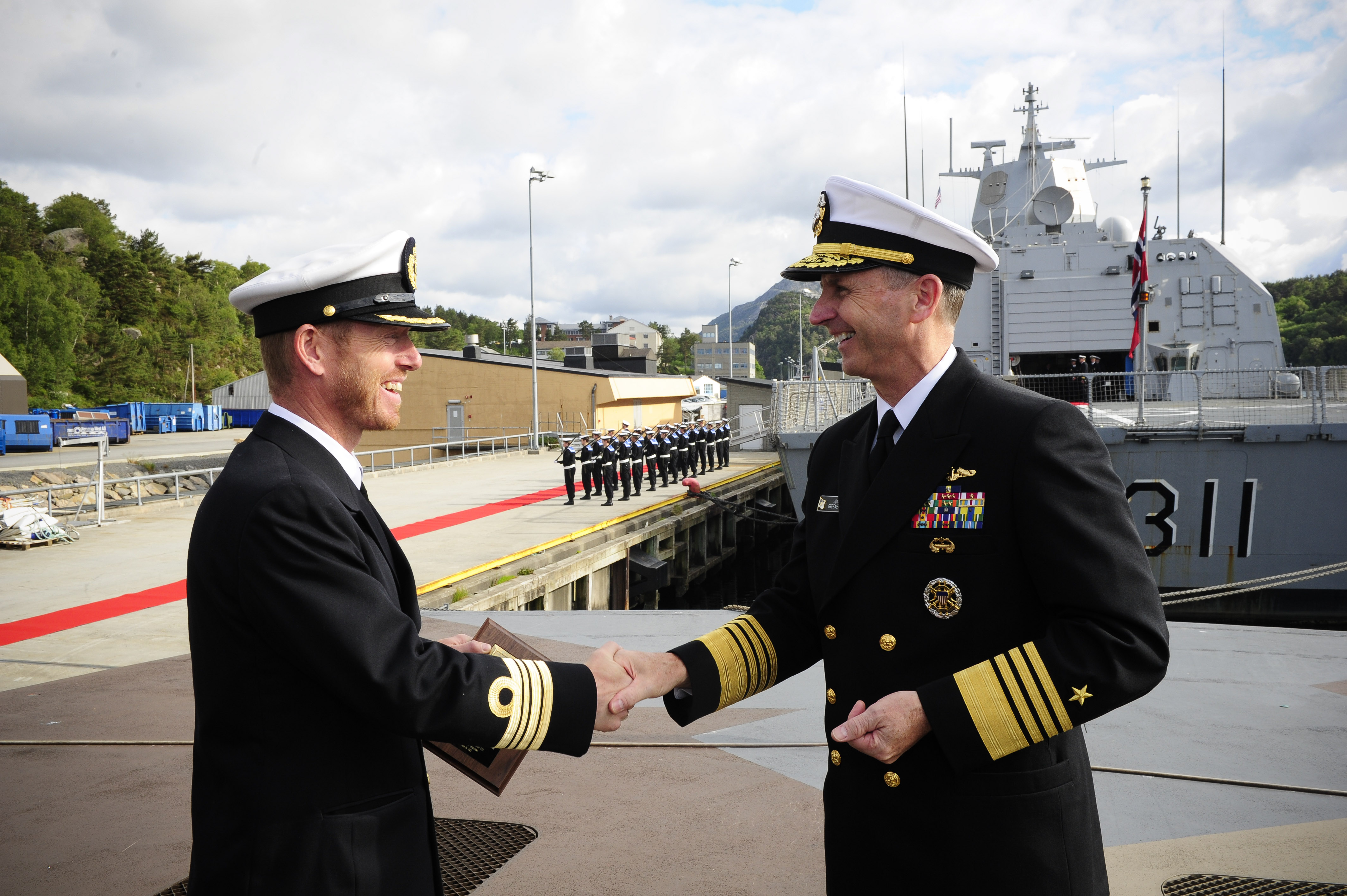 BERGEN, Norway (June 19, 2012) Chief of Naval Operations (CNO) Adm. Jonathan Greenert shakes hands with a Royal Norwegian navy officer during a tour of the Skjold-class coastal corvette HNoMS Skudd (P962). (U.S. Navy photo by Mass Communication Specialist 1st Class Peter D. Lawlor/Released) 120619-N-WL435-152 Join the conversation navylive.dodlive.mil